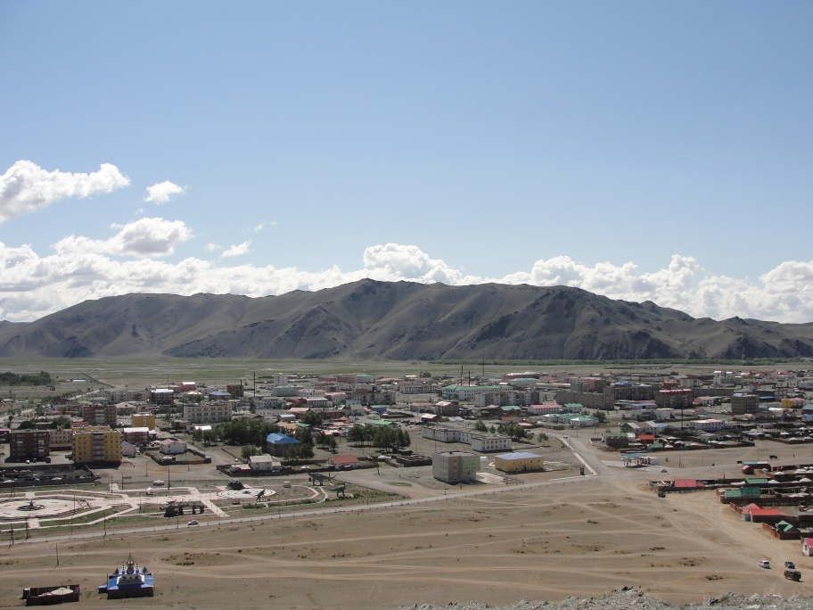 Nomgon Khairkhan and Bayankhongor town